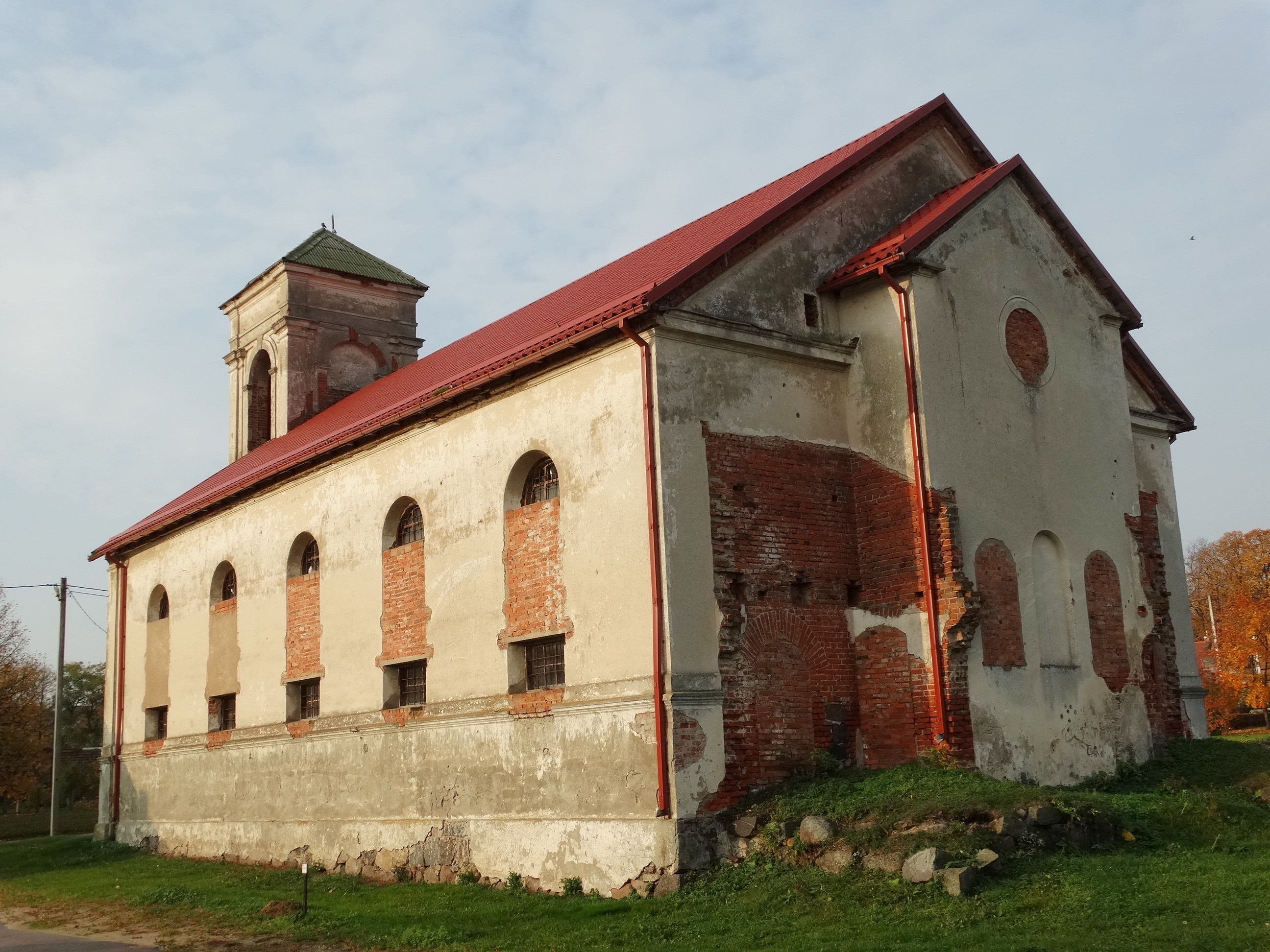 Evangelical Lutheran Church in Virbalis, Vilkaviškis District, Lithuania